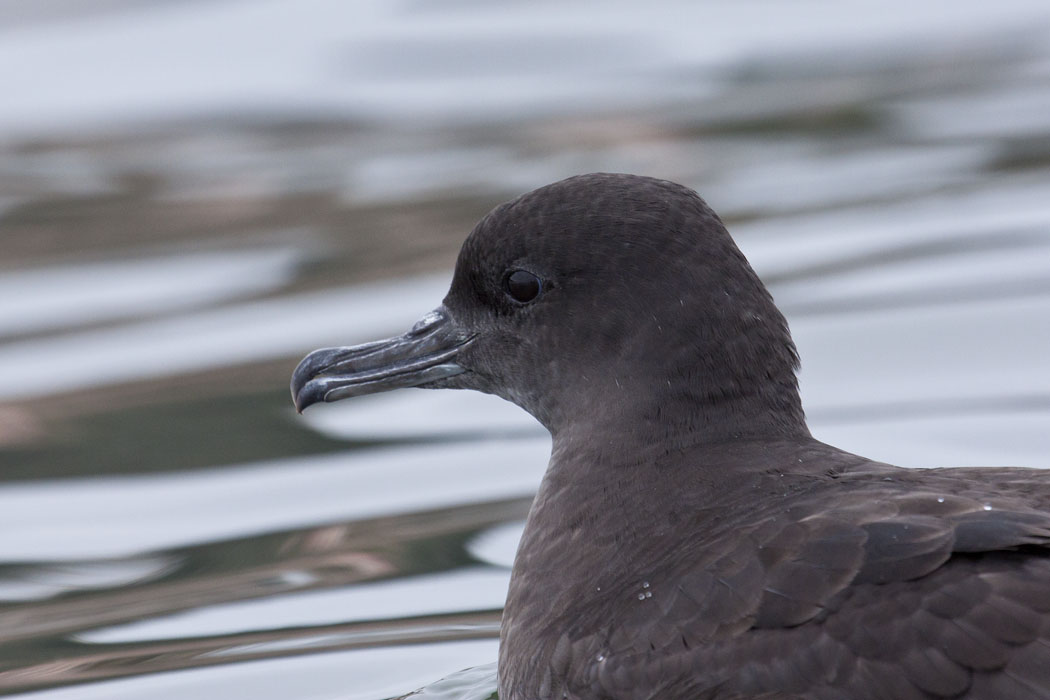 A Sooty Shearwater near Avila Beach, California, USA.